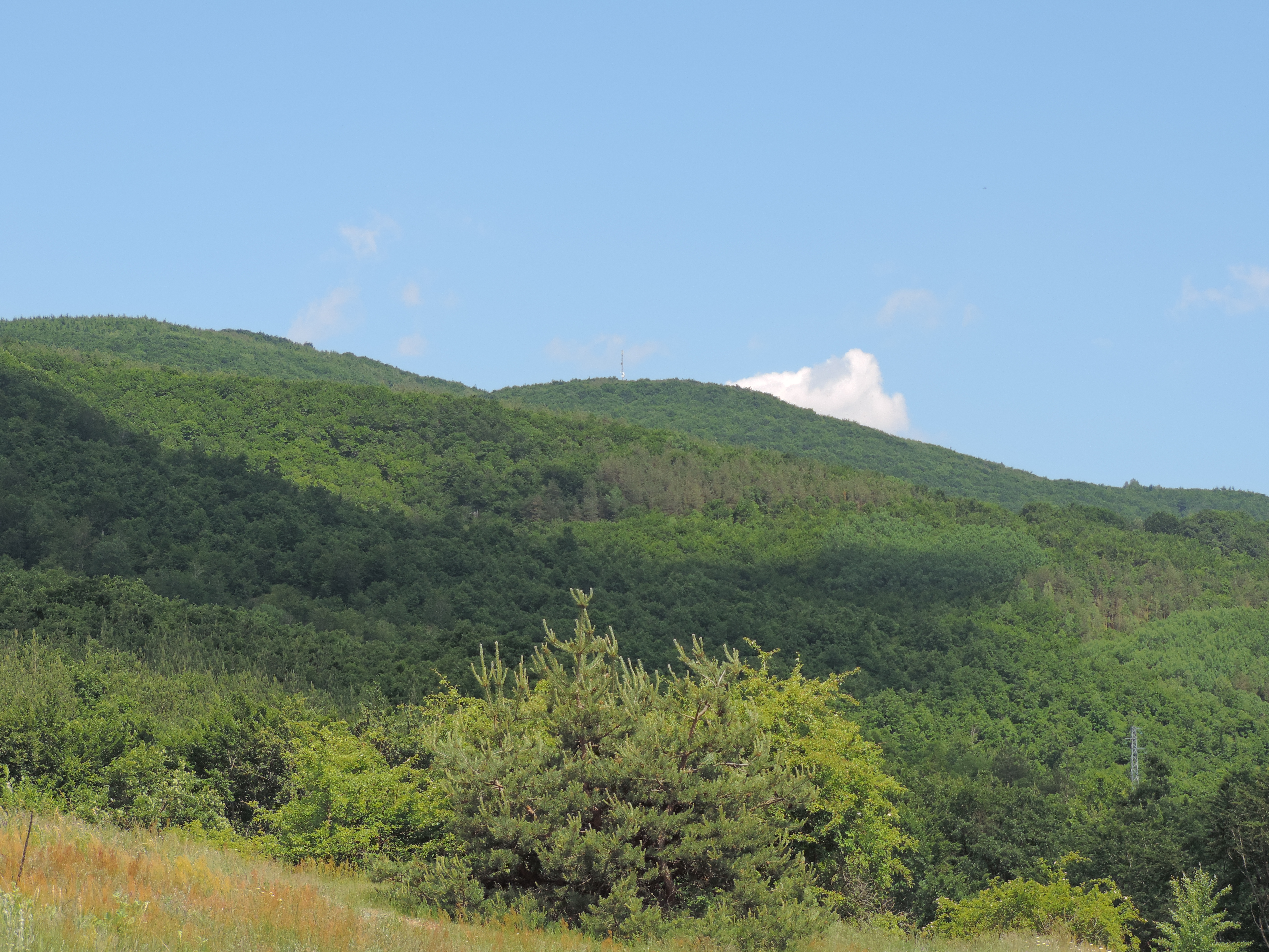 Eledzhik, Bulgaria